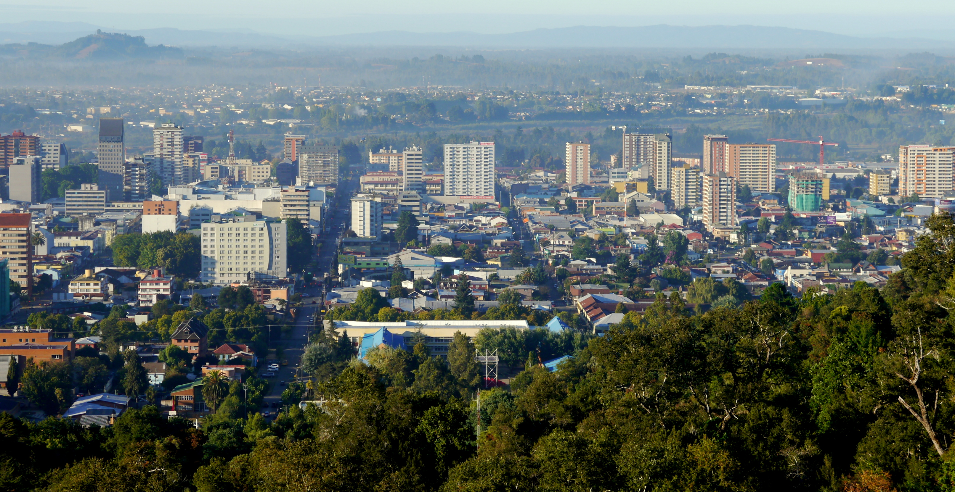 View from Temuco, Araucanía región